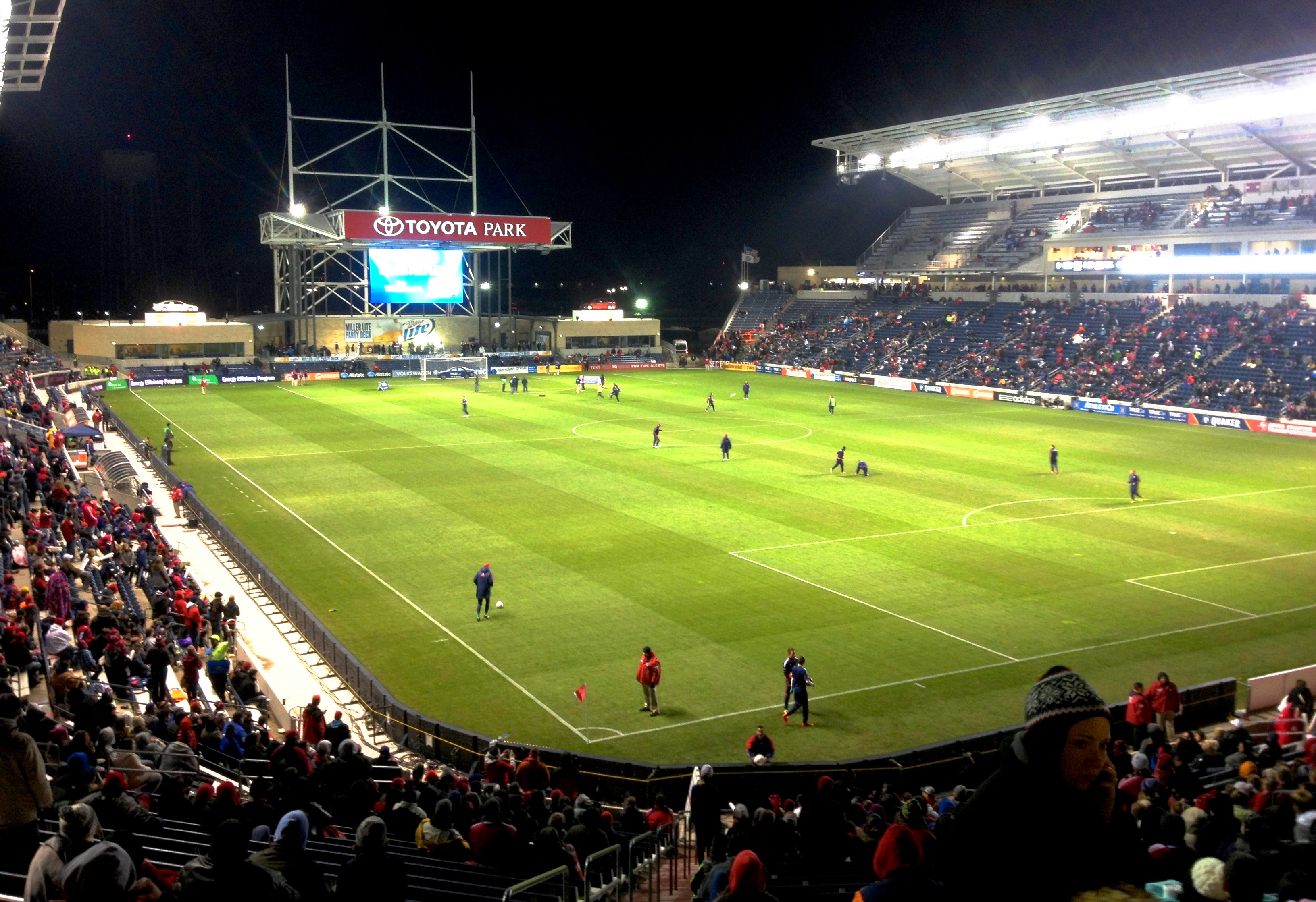 Toyota Park during the halftime of the Chicago Fire vs New England Revolution MLS regular season match on March 9, 2013